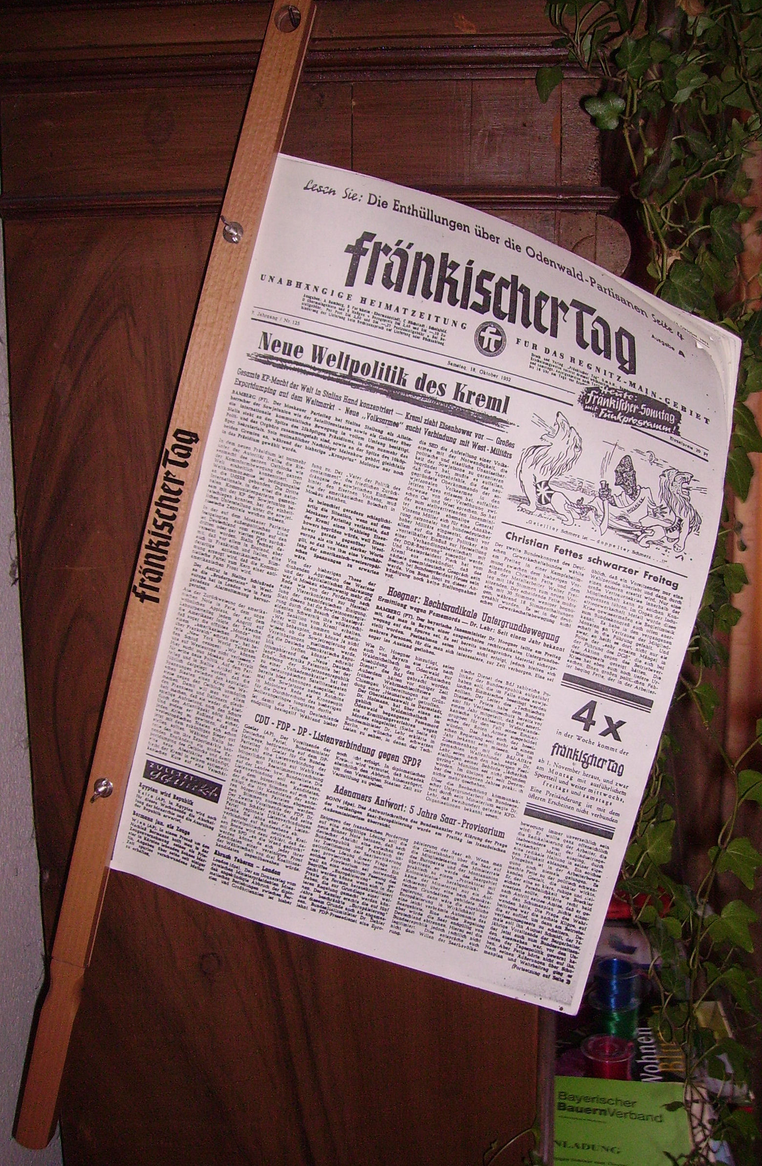 newspaper of Bamberg, Germany